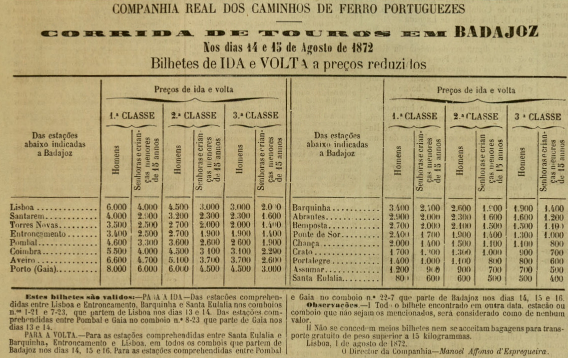 Advertisement of the Companhia Real dos Caminhos de Ferro Portugueses (Royal Company of the Portuguese Railways), for return tickets at special prices to Badajoz, for a bullfighting event. This image was published on the Diario Illustrado newspaper No. 45, of 14th August 1872, and scanned by the Biblioteca Nacional de Portugal.